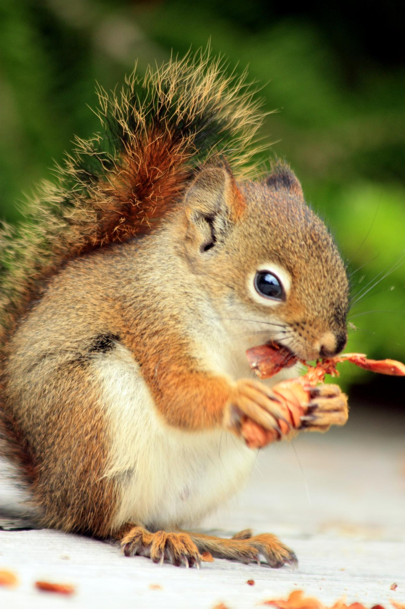 Red squirrel (Tamiasciurus hudsonicus) in the Skyline Trail of Cape Breton Highlands National Park.